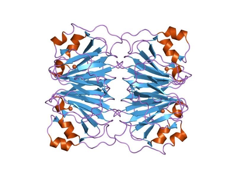 Cartoon representation of the molecular structure of protein registered with 1y3t code.